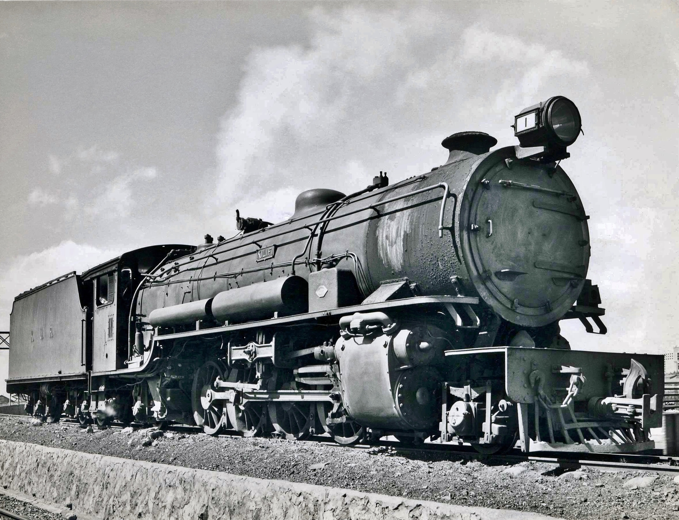 right facing front and side portrait of East African Railways 28 class locomotive no. 2804 Kilifi. The class was originally known as the Kenya-Uganda Railway EA class.